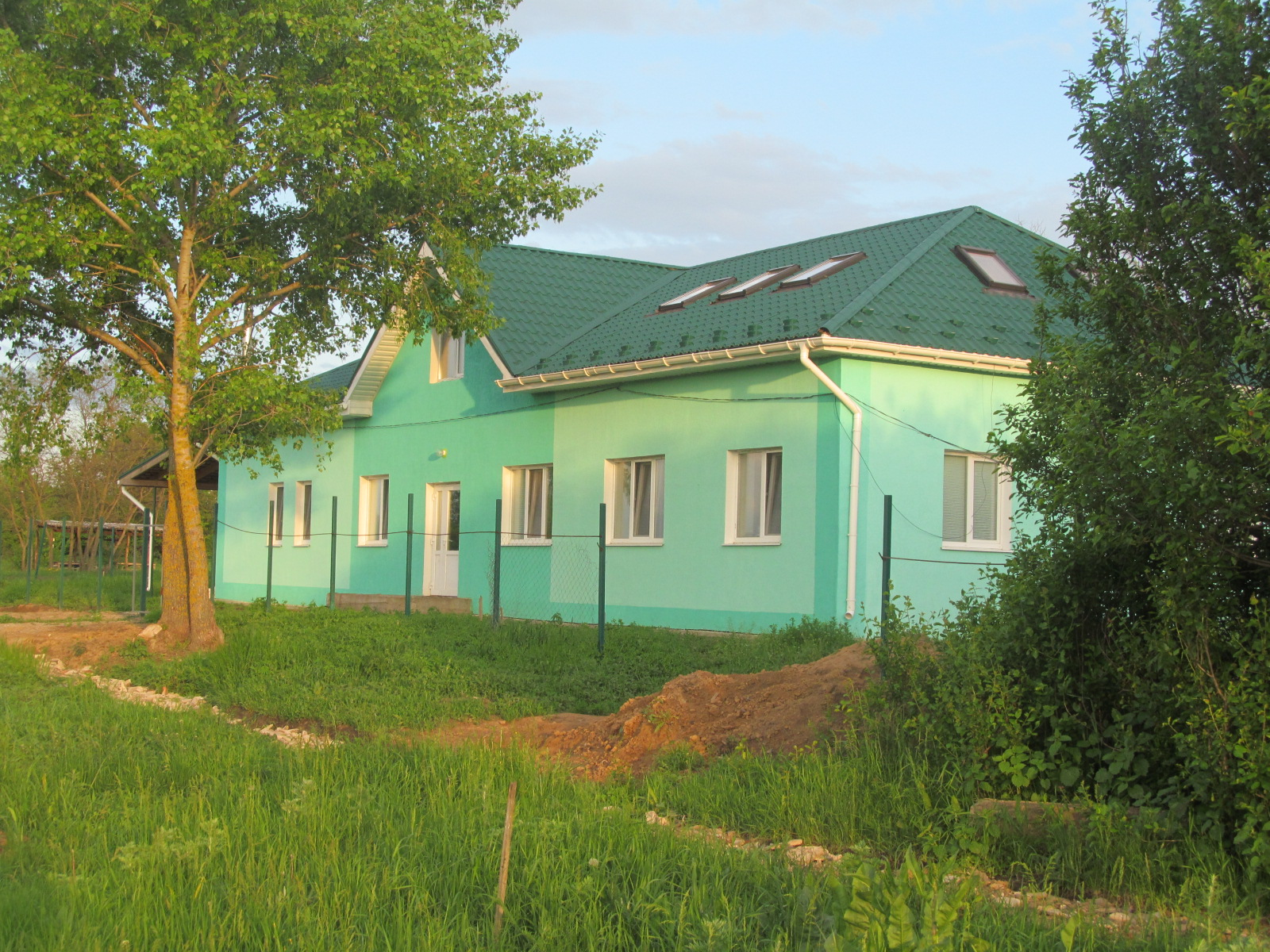 Happy Home 3 for orphans in Ukrainka village, Ukraine